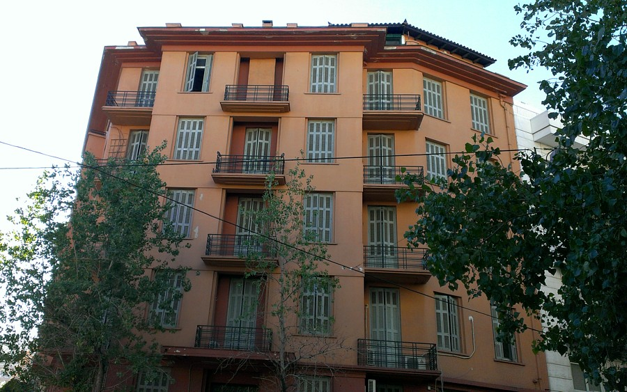 ilisia